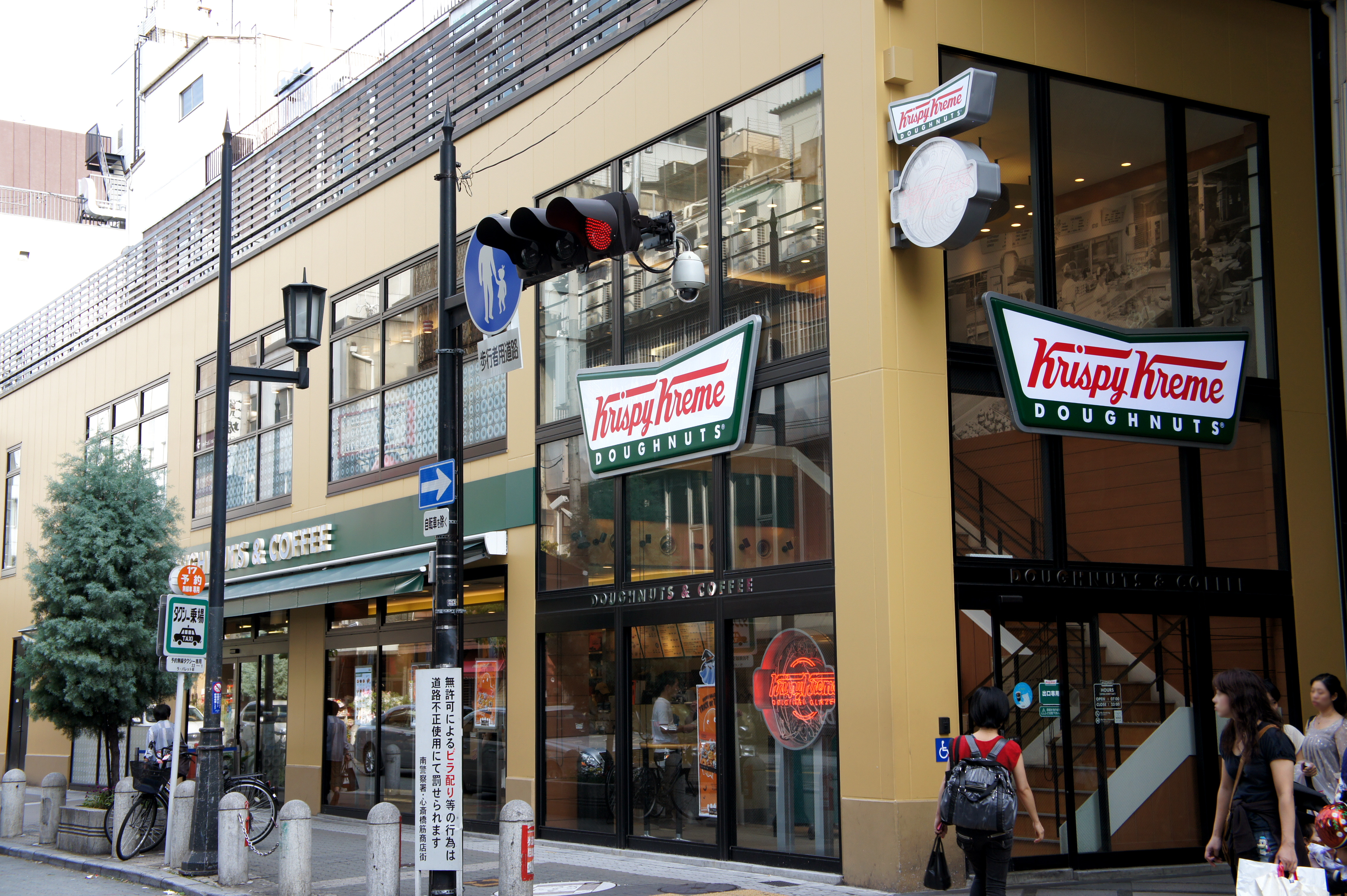 Krispy Kreme Shinsaibashi, 2-1-24 Shinsaibashisuji Chuo-ku Osaka-City Osaka Japan.